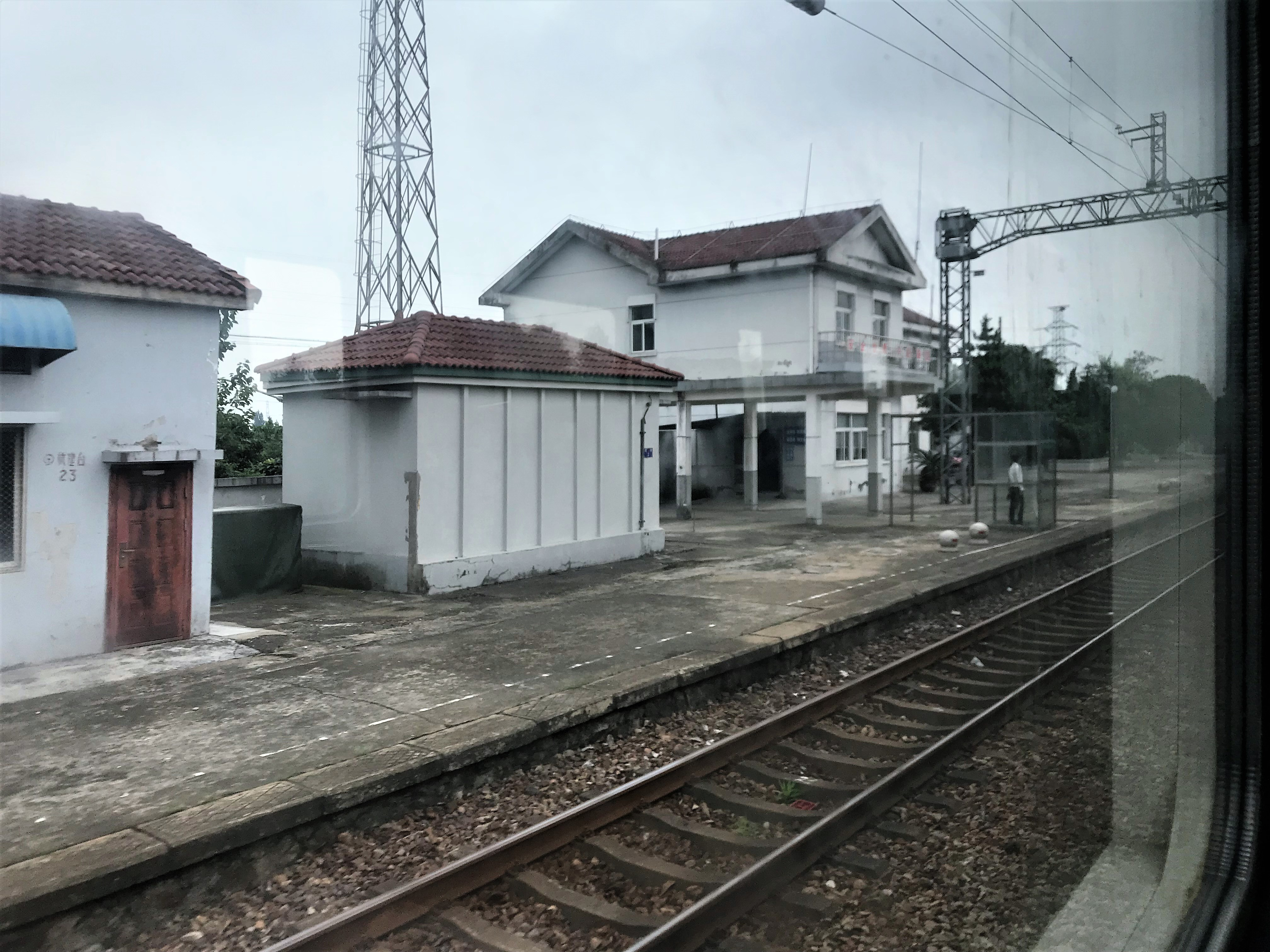 The canopy on the platform seems to be removed